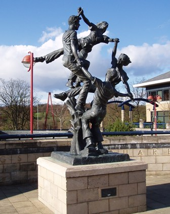 Source- Michael Westwater